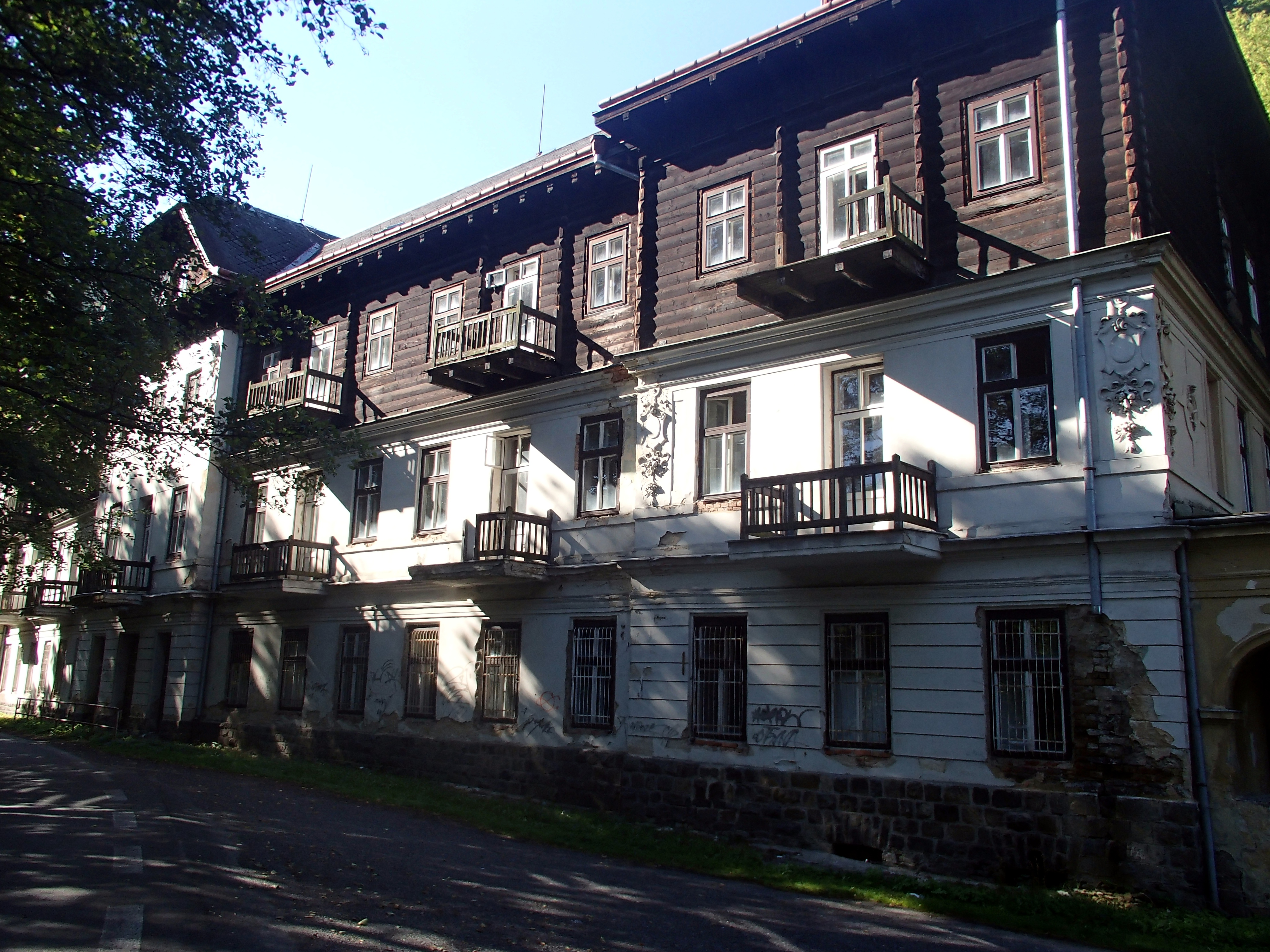 During World War Two this building was in use as German prisoners of war camp Oflag VIII-E Johannisbrun. High ranking generals of the Netherlands army where imprisoned here: Major General H.F.M. Baron van Voorst tot Voorst, Major General A.R. van den Bent, Lieutenant General P.W. Best, Major General H.C.G. baron van Lawick, Vice Admiral N.J. van Laer, supreme commander of the Netherlands armed forces General H.G. Winkelman, Lieutenant General J.J.G. Baron van Voorst tot Voorst.